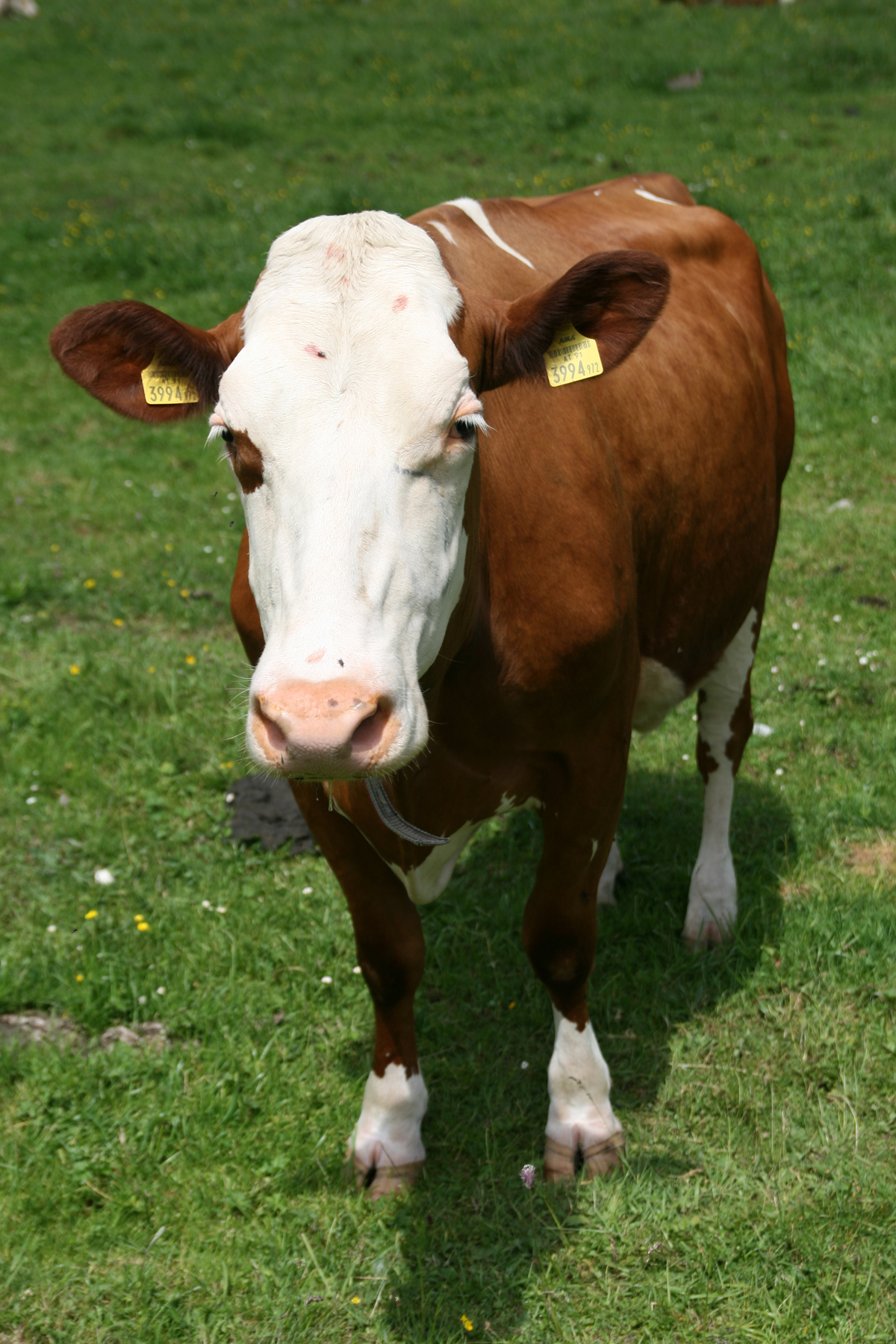 Description: Cattle, colloquially referred to as cows, are domesticated ungulates, a member of the subfamily Bovinae of the family Bovidae. As shown: Simmental is a brown-white cattle breed originating in the Simme valley in Switzerland